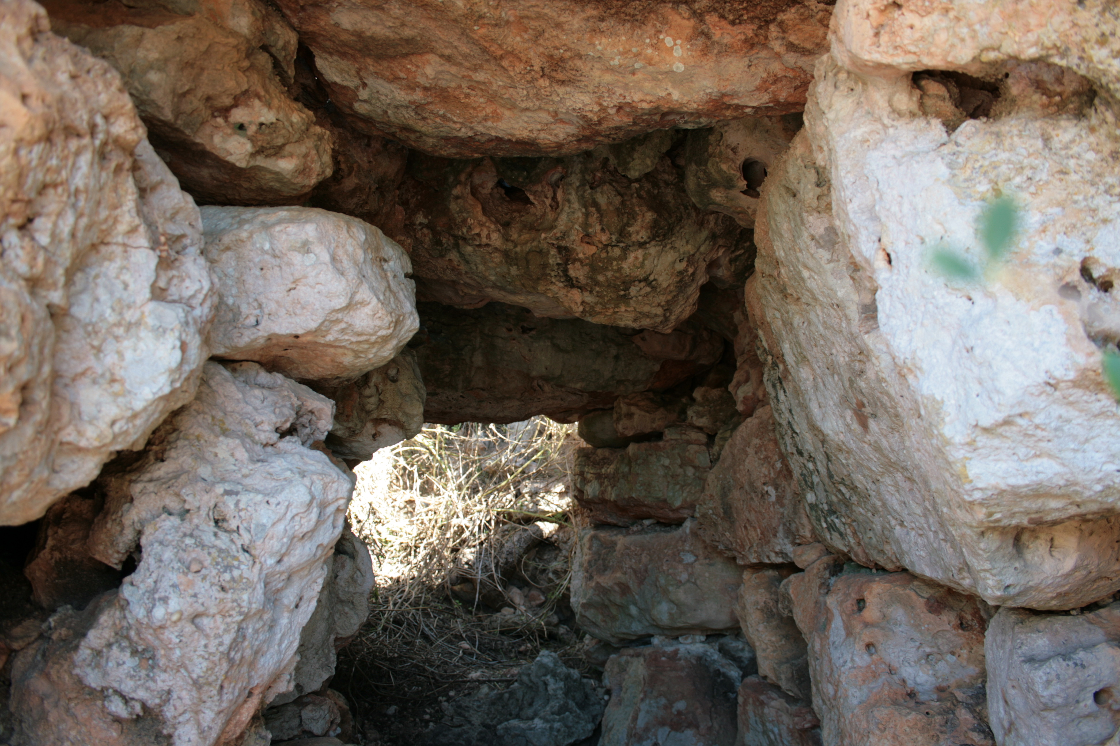 Mallorca talayot Cas Canar entrance